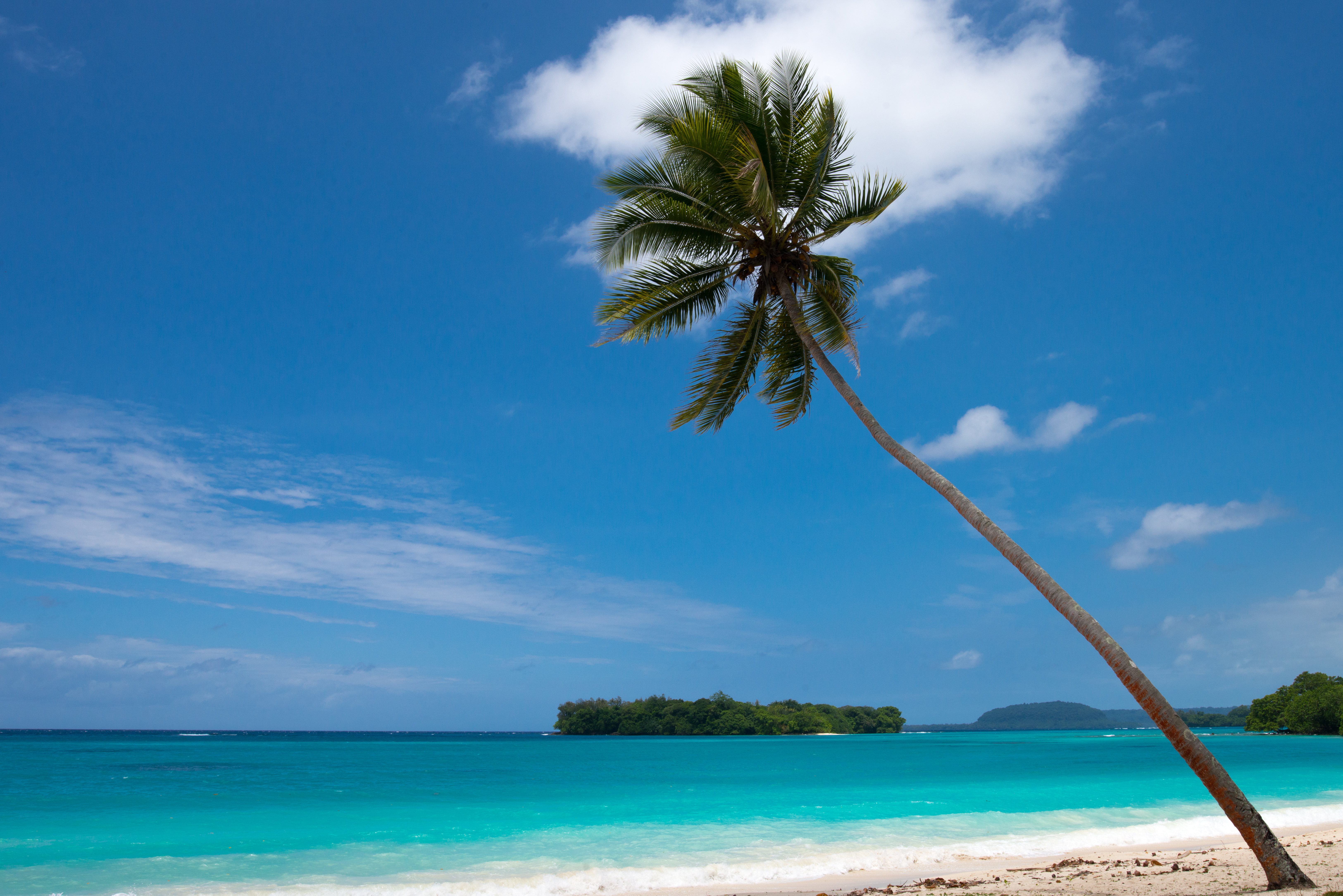 Port Vila Beach on Éfaté Island. Third set of photos from a series of site visits to roll out the government of Vanuatu's universal access policy.